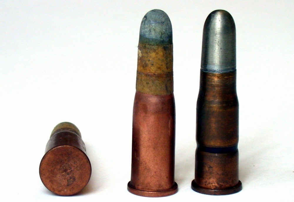 Vetterli cartridges